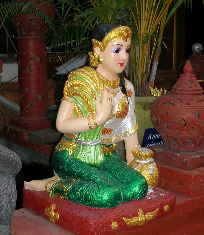 Pho Sop, the Siamese rice goddess, painted cement statue in Chiang Mai Thailand